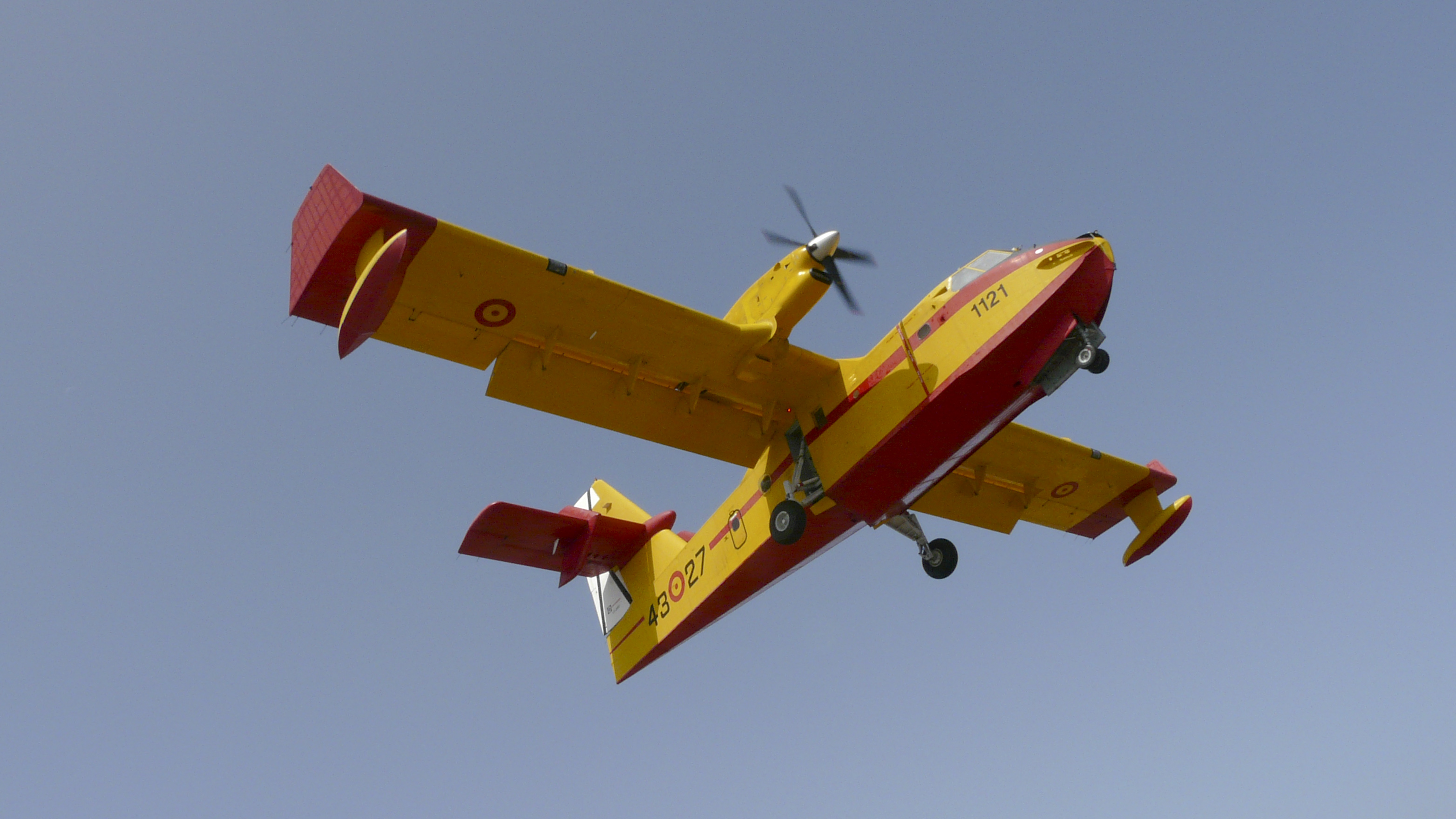 Canadair CL-215T of the Spanish Air Force